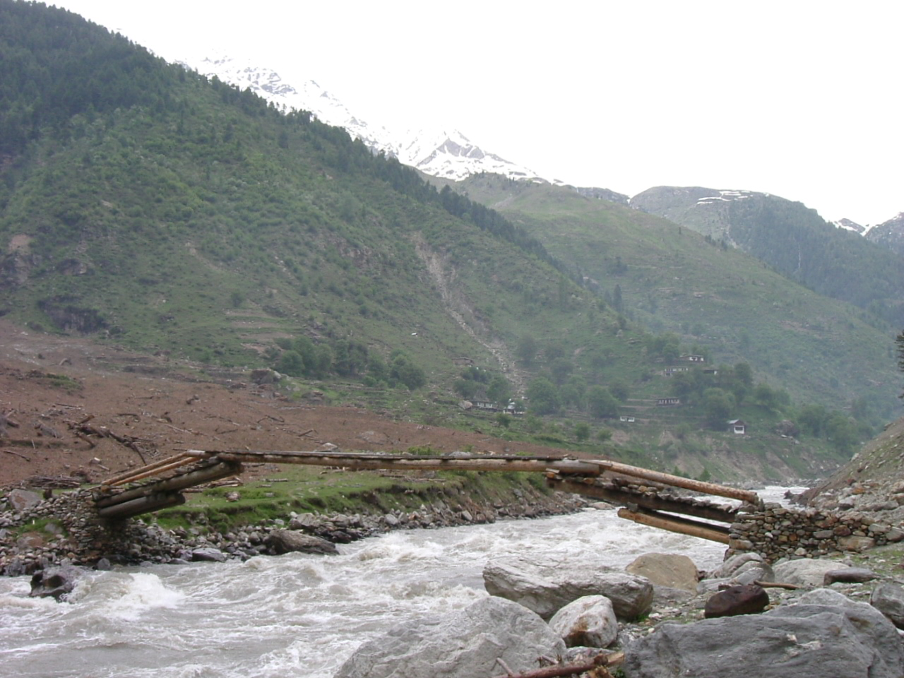 Log cantilever bridge on Kunar river, Pakistan